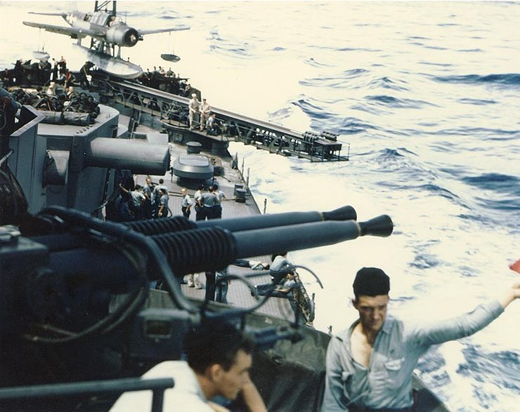 The U.S. Navy cruiser USS Mobile (CL-63) preparing to launch a Vought OS2U "Kingfisher" floatplane from her port catapult, during the October 1943 raid on Marcus Island. Note the 40mm twin gun mount in the foreground, with a man in the gun tub holding a red flag.